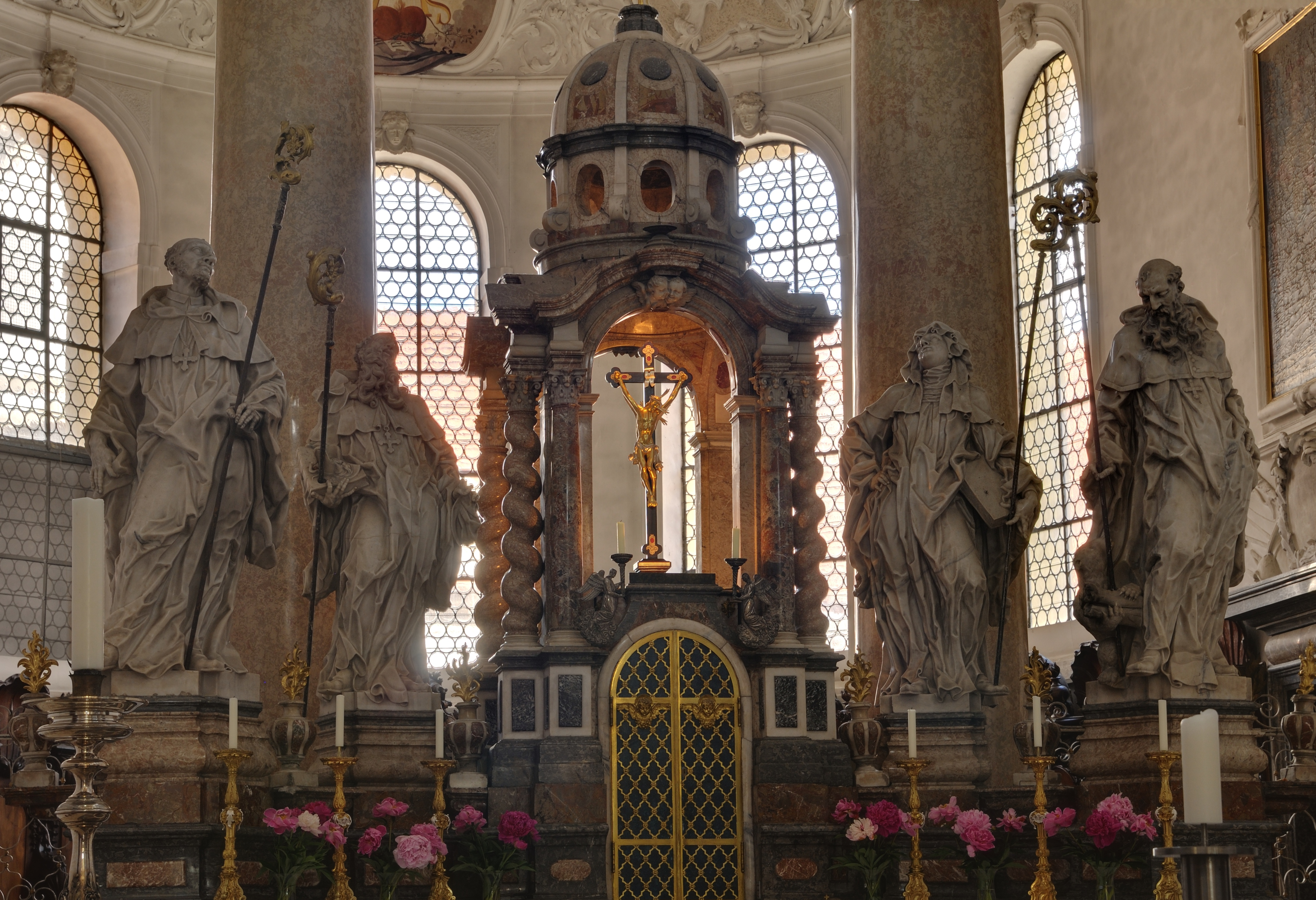 St. Mang Basilica Füssen